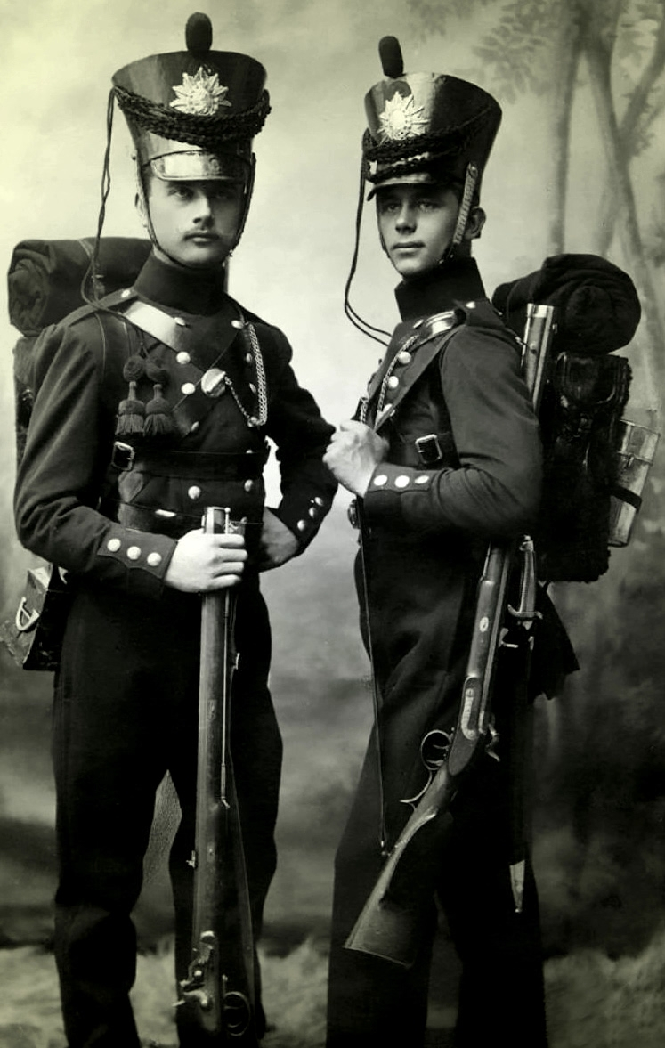 jaeger 1915 bisspingen